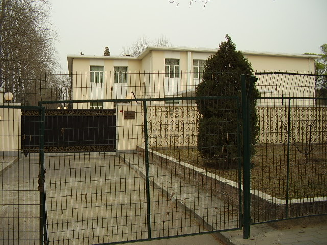 Photograph of Ghanan Embassy in Beijing